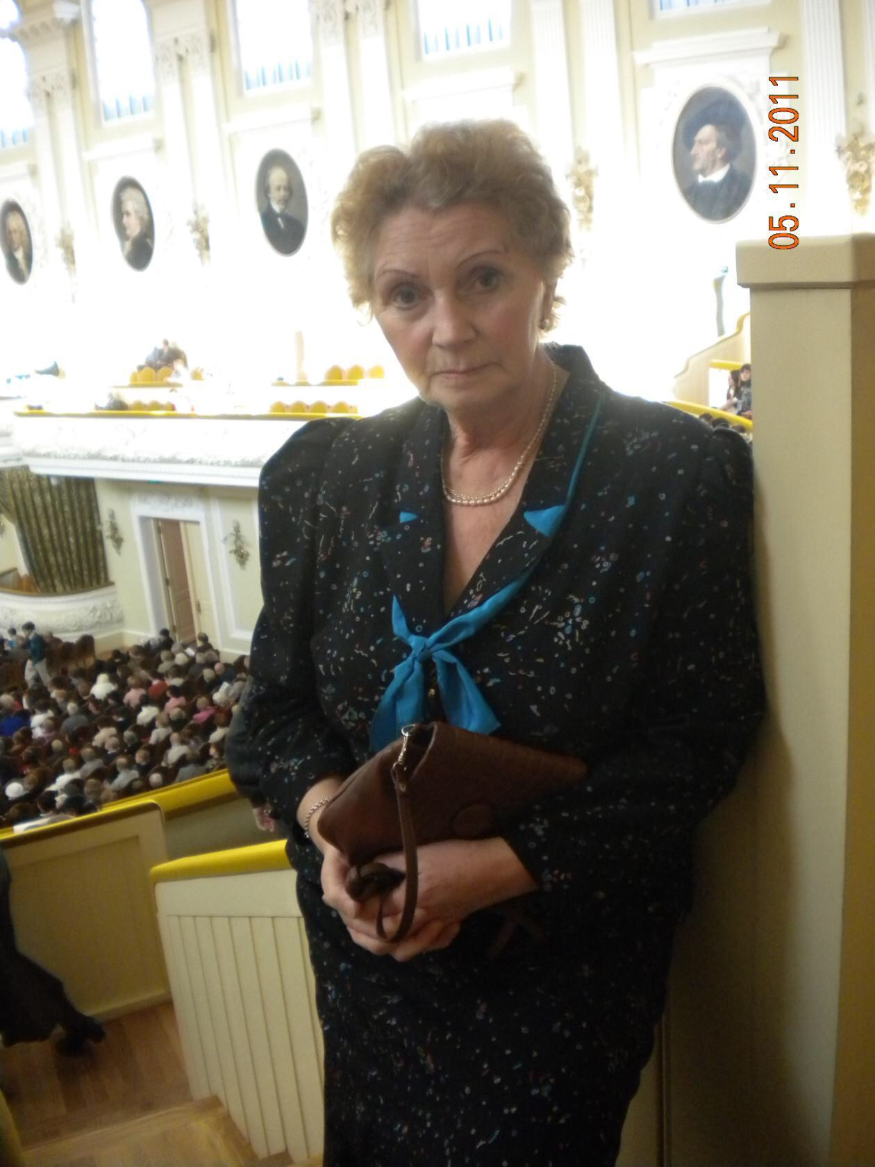 Композитор Татьяна Смирнова на концерте в Большом зале консерватории